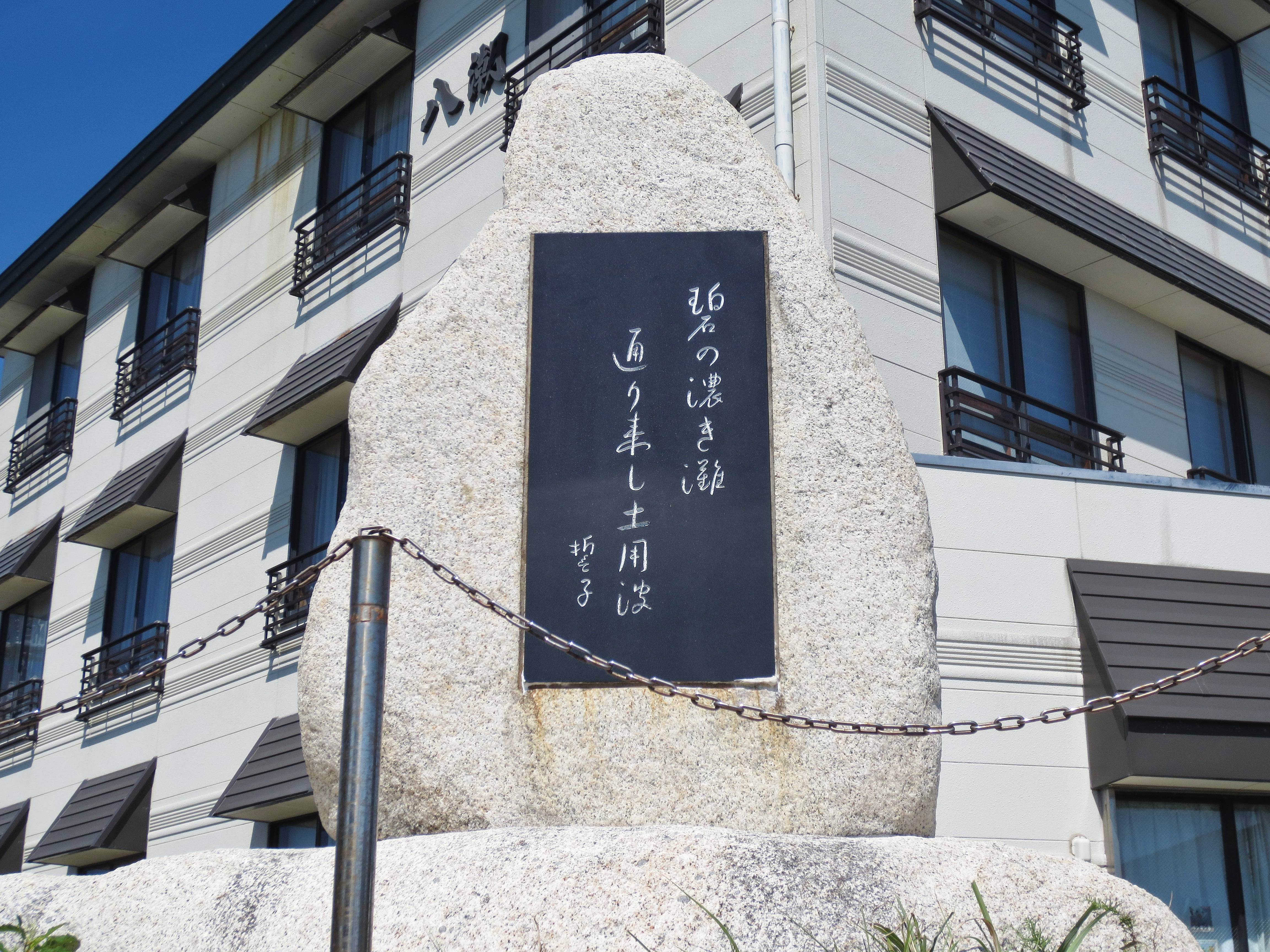 Omaezaki Lighthouse Yamaguchi Seishi monument.